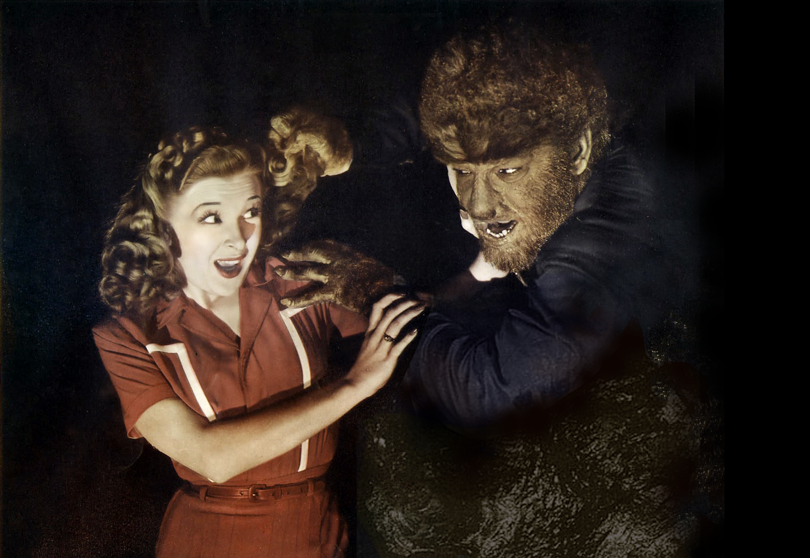 Lobby card for Universal Studios' The Wolf Man featuring Lon Chaney Jr as the title character. This image is assumed to be in the public domain as no copyright notice is in evidence.